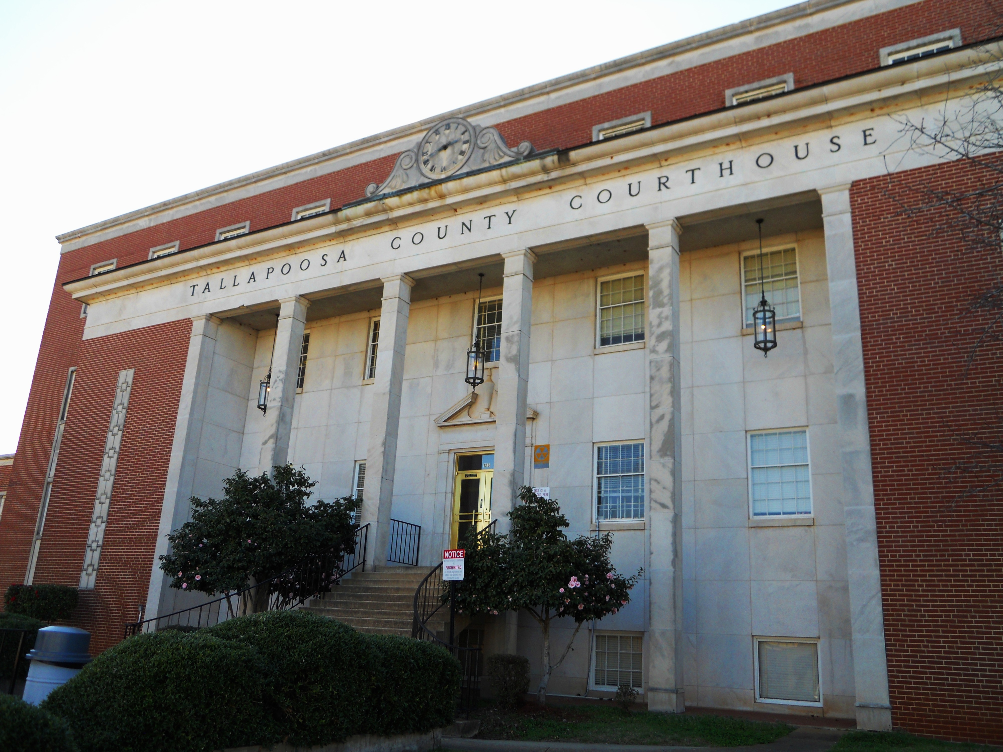 This is a photograph of the Tallapoosa County Courthouse in Dadeville, Alabama.